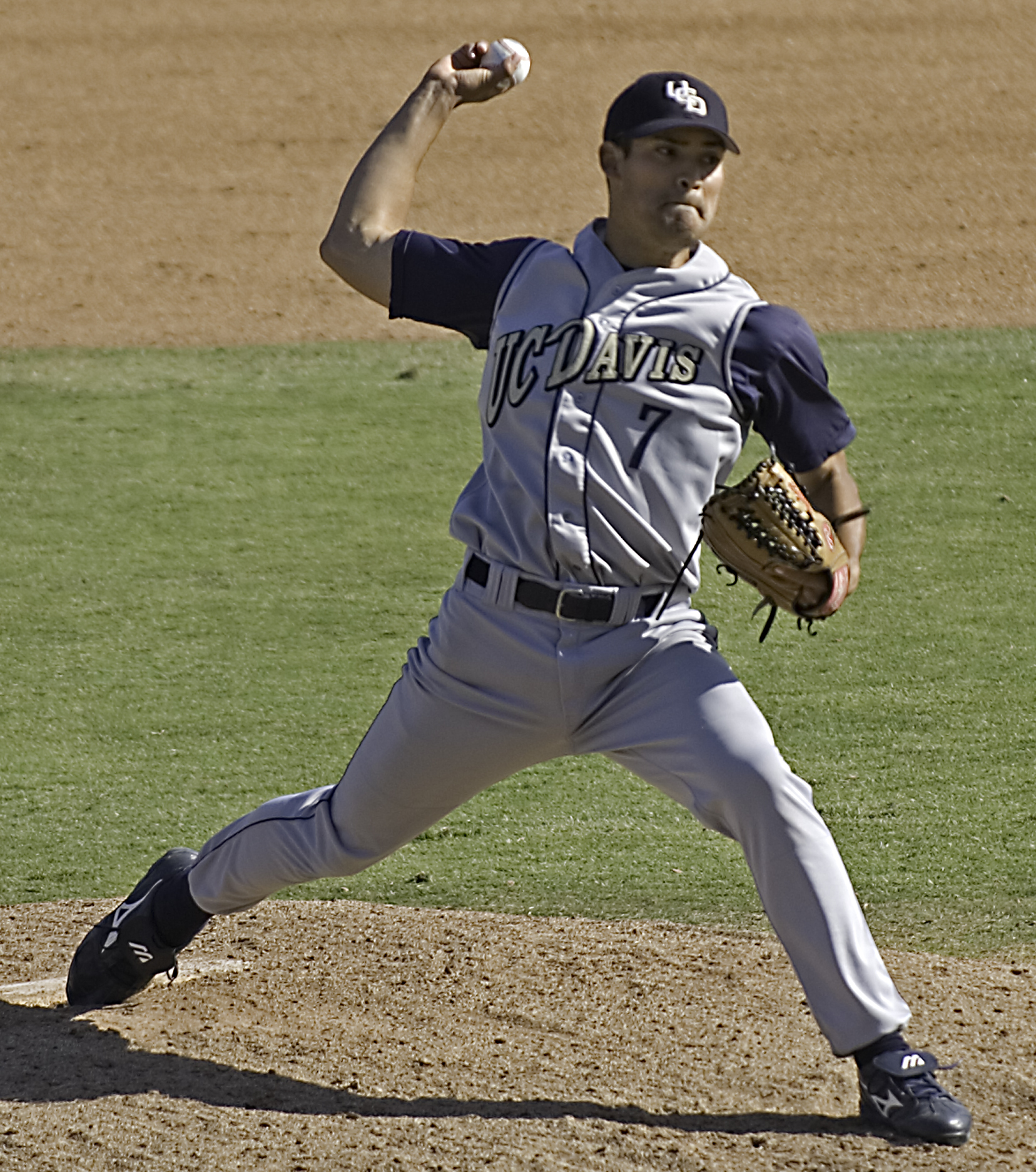 Eddie Gamboa delivers a pitch for the UC Davis Aggies during a 2007 game at Blair Field in Long Beach, California.